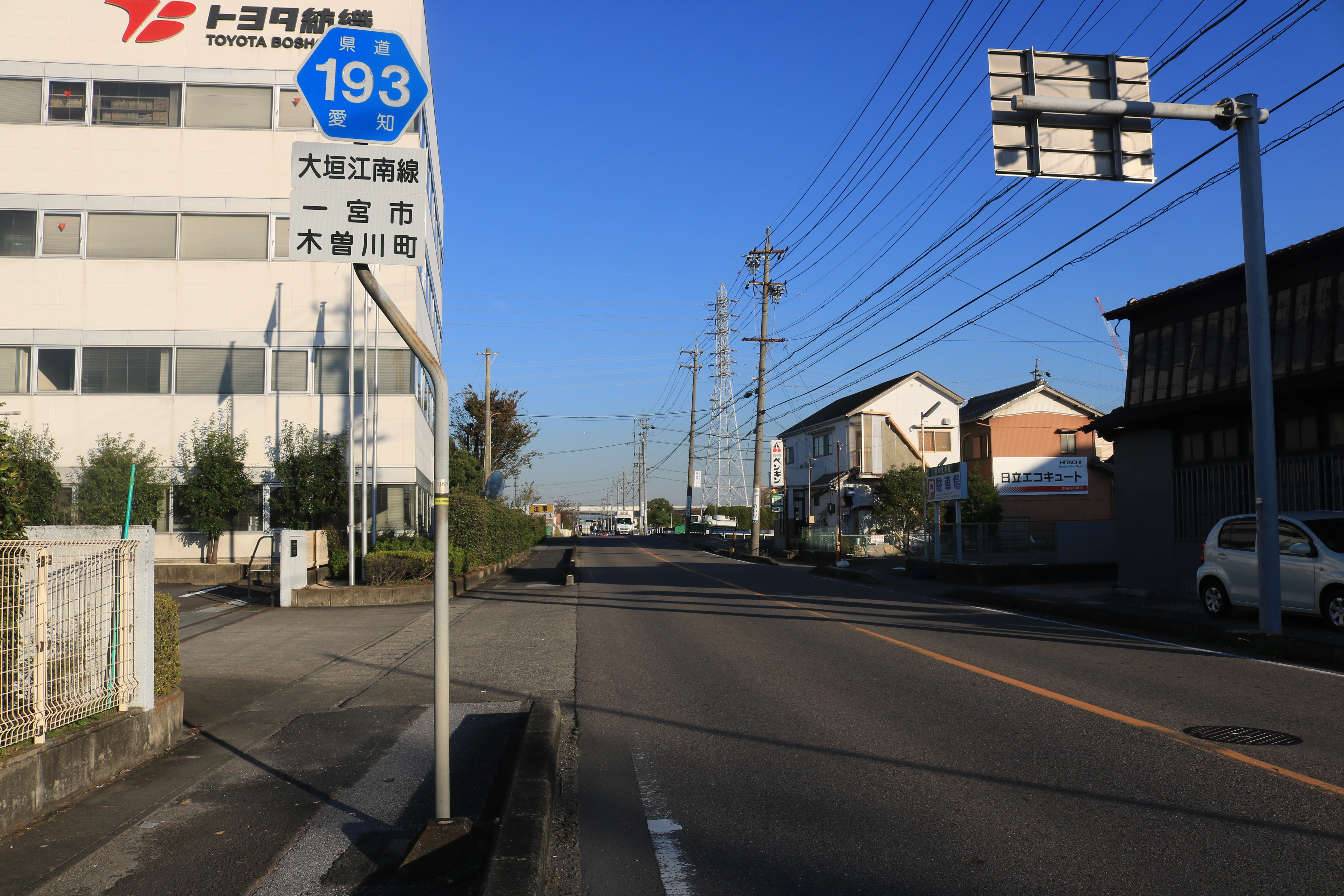 Aichi Prefectural Road Route 193 in Kisogawacho, Ichinomiya, Aichi prefecture, Japan.